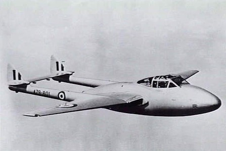 In flight, a D.H. Vampire T-Mk33 (Australia), A79-801, of the RAAF.